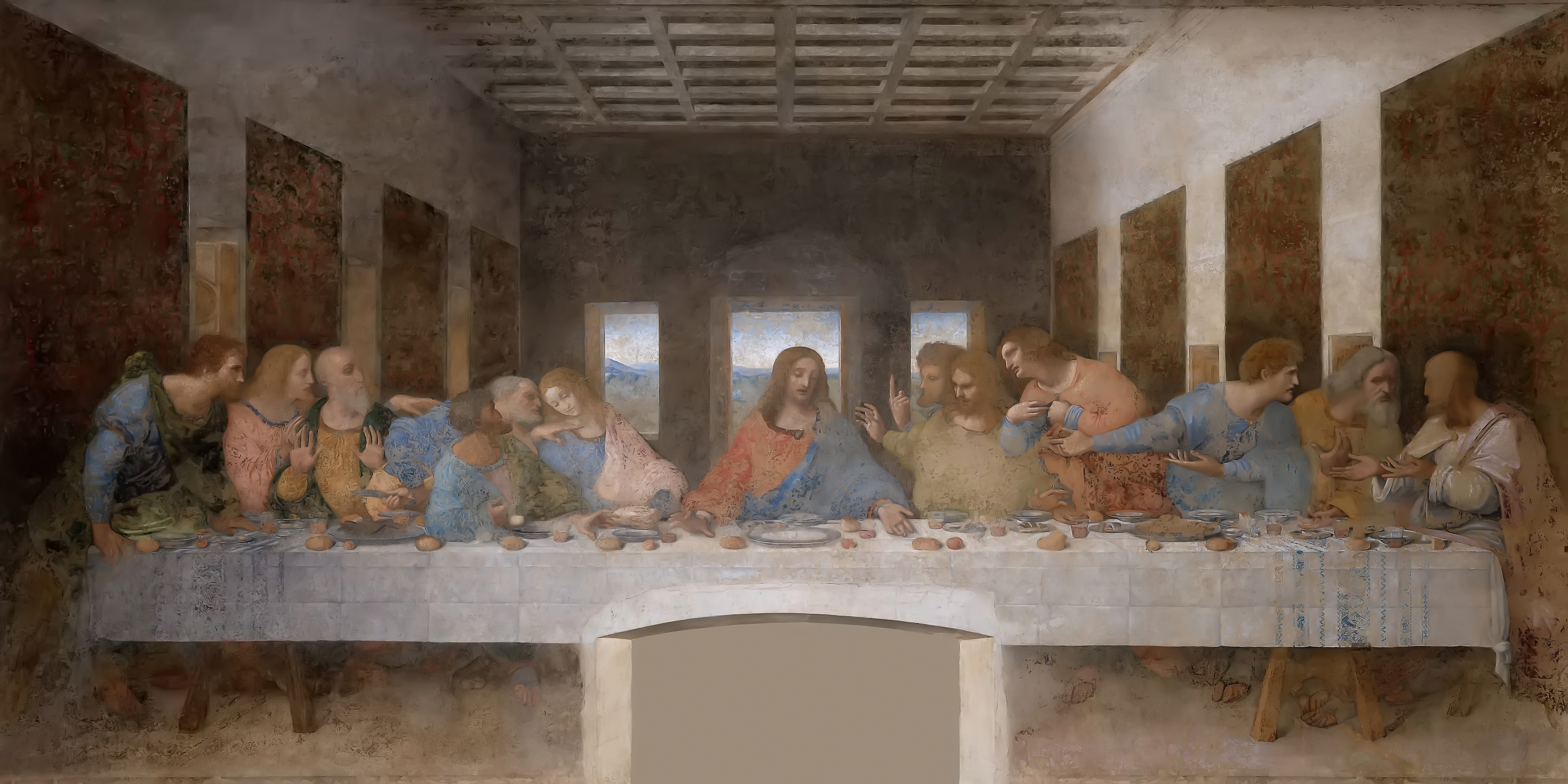 The Last Supper Leonardo Da Vinci High Resolution (32x16)